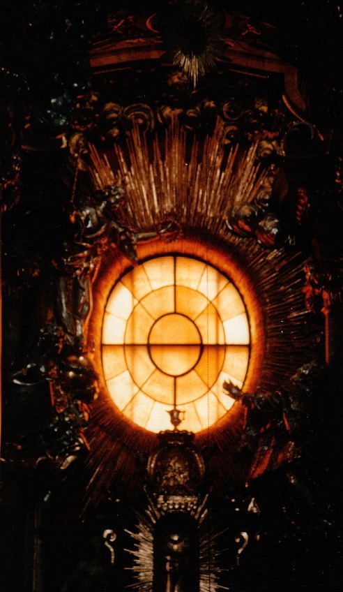 The window of Munich's Church of St. Johann Neopmuk, better known as the Asam Church, built 1733-1746